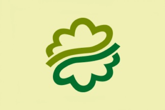 Flag of Kikugawa Shizuoka